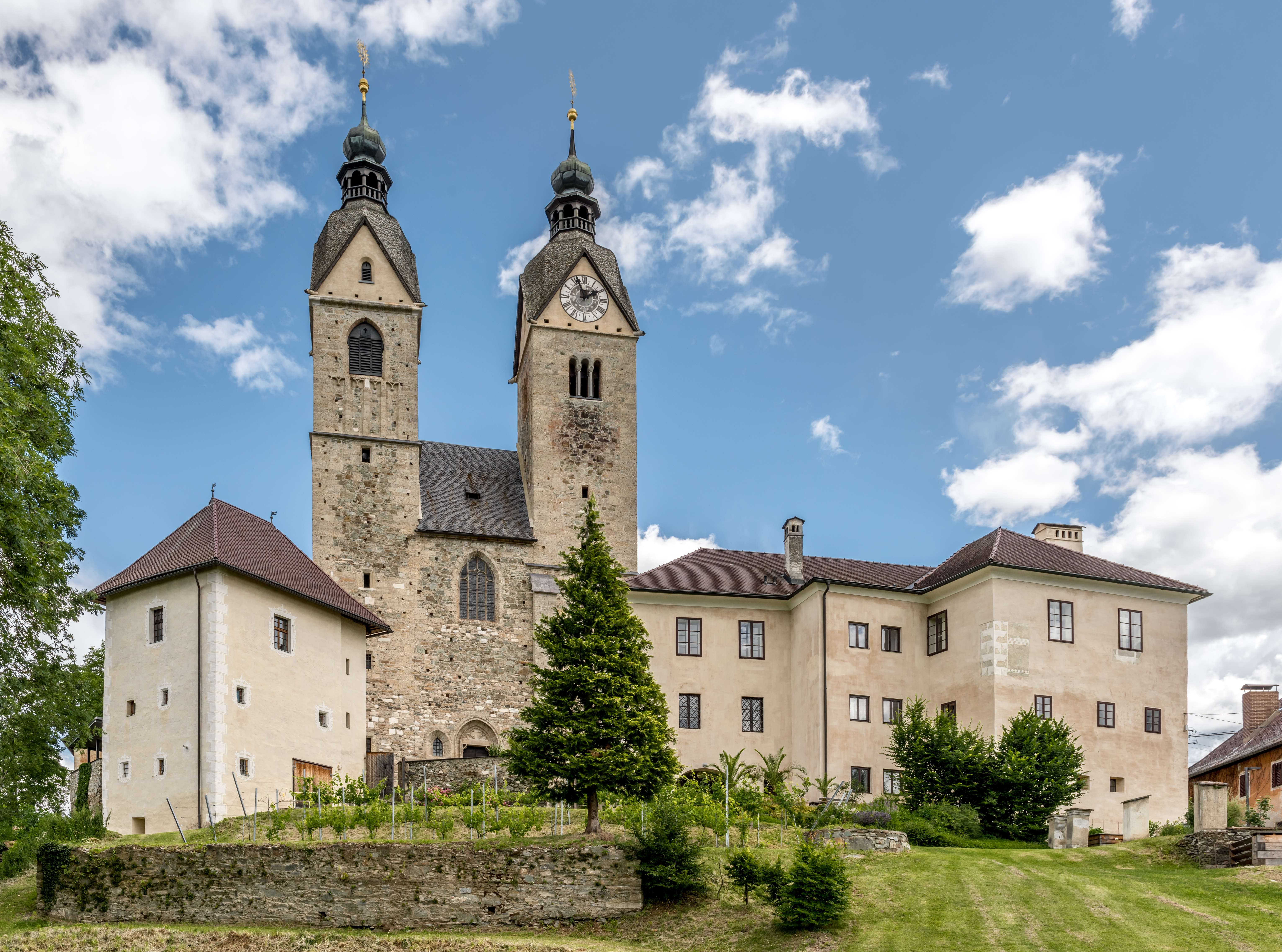 Western view of the Capuchins` manor house, pilgrimage church and rectory, market town Maria Saal, district Klagenfurt Land, Carinthia, Austria, EU